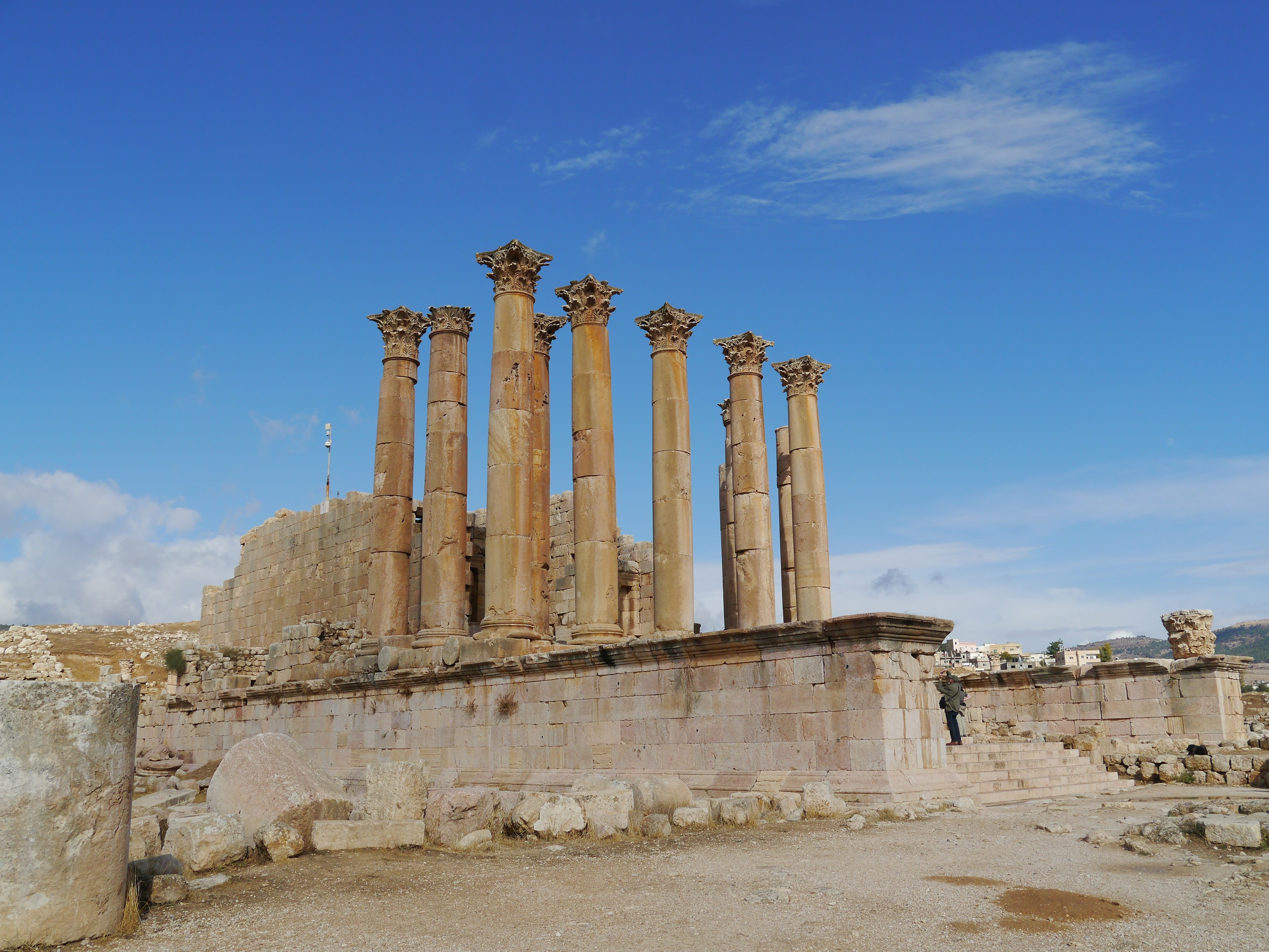 Temple of Artemis, Gerasa/Jerash, Northwest Jordan